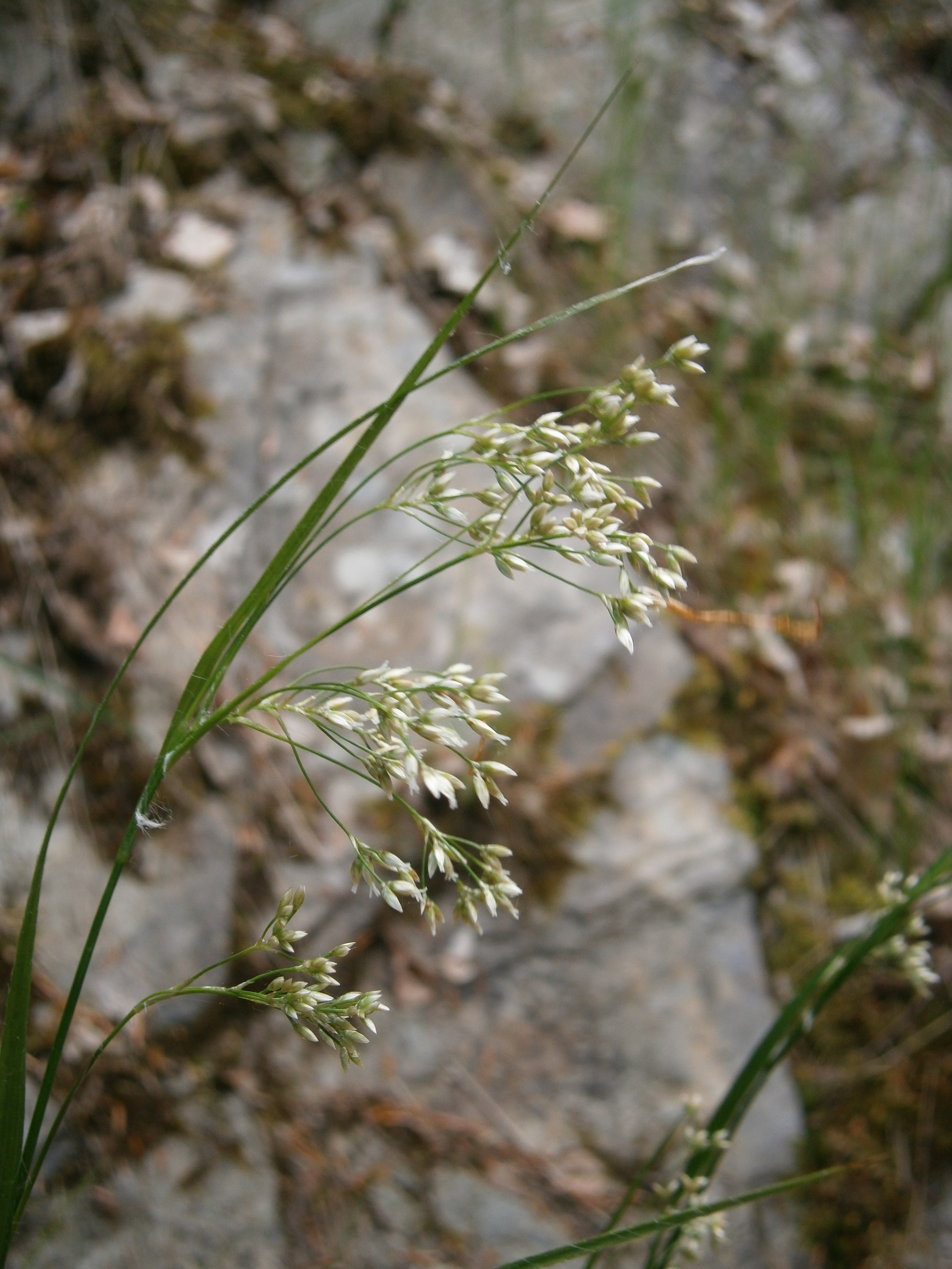 Luzula luzuloides